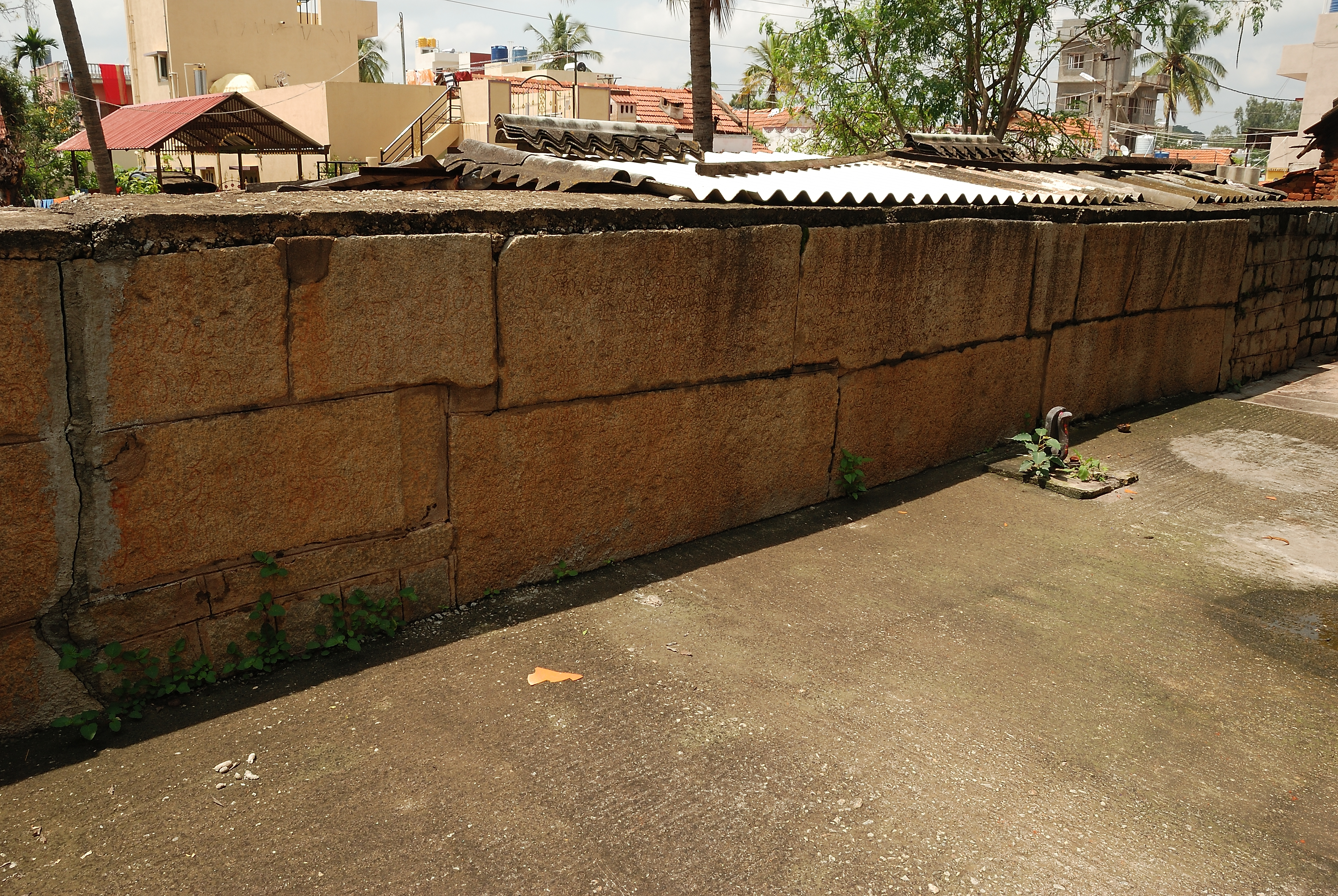 inscriptionstonesofbangalore